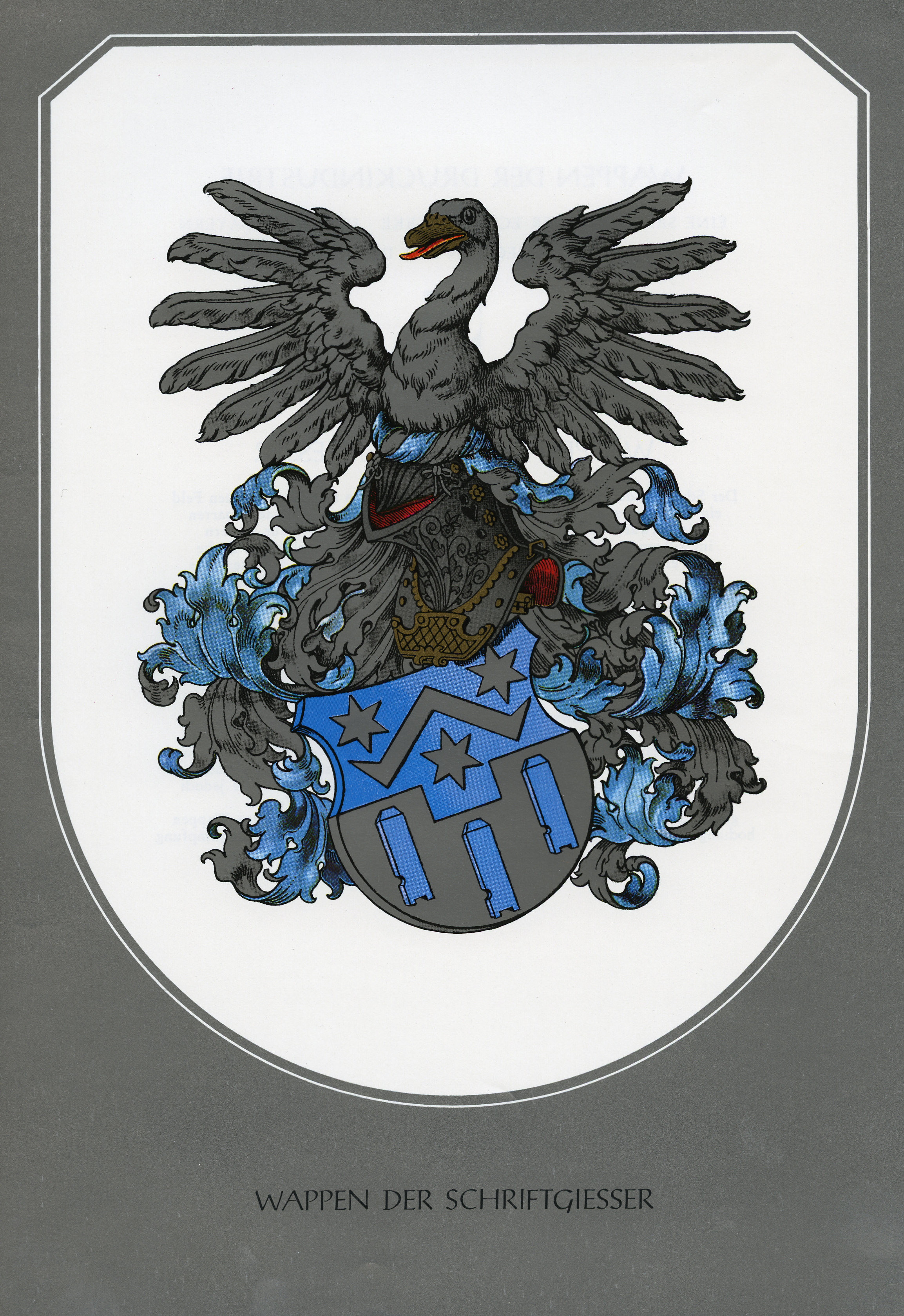 Coat of Arms, Typefounder